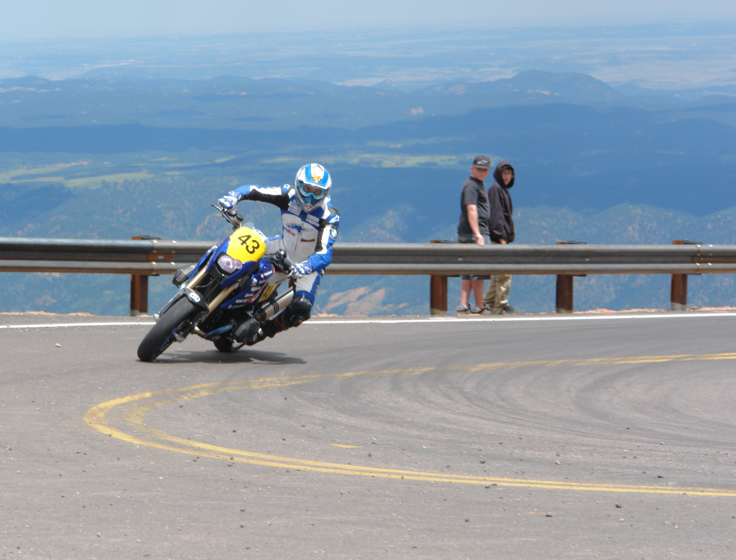 A motorcycle leaning in a turn. Taken at the end of the pavement at the 2007 Pike Peak International Hillclimb.